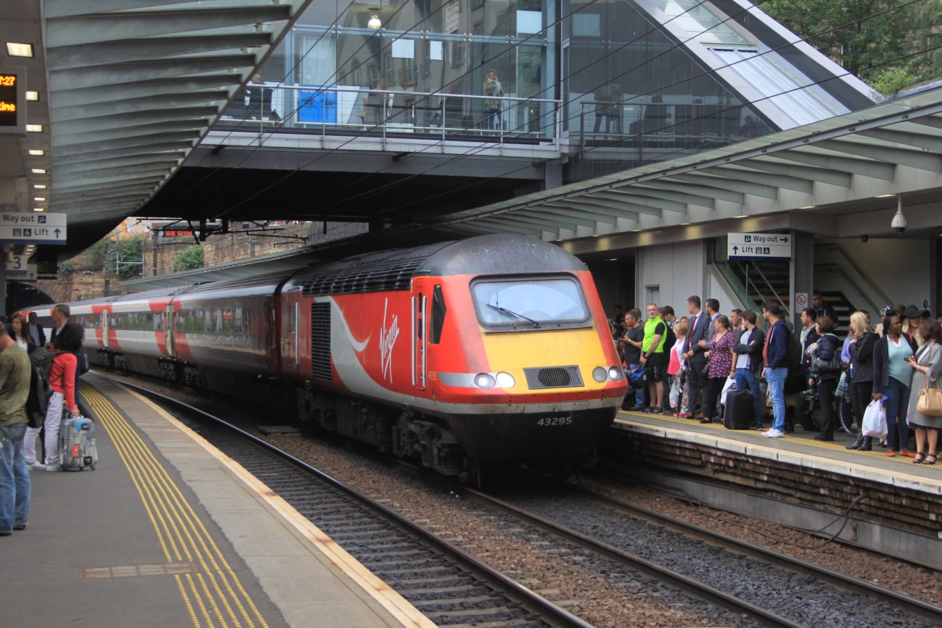 The late running Highland Chieftain from London to Inverness arrives at Haymarket station in Edinburgh. This is a popular train for people returning to the Highlands after a day's business or shopping.